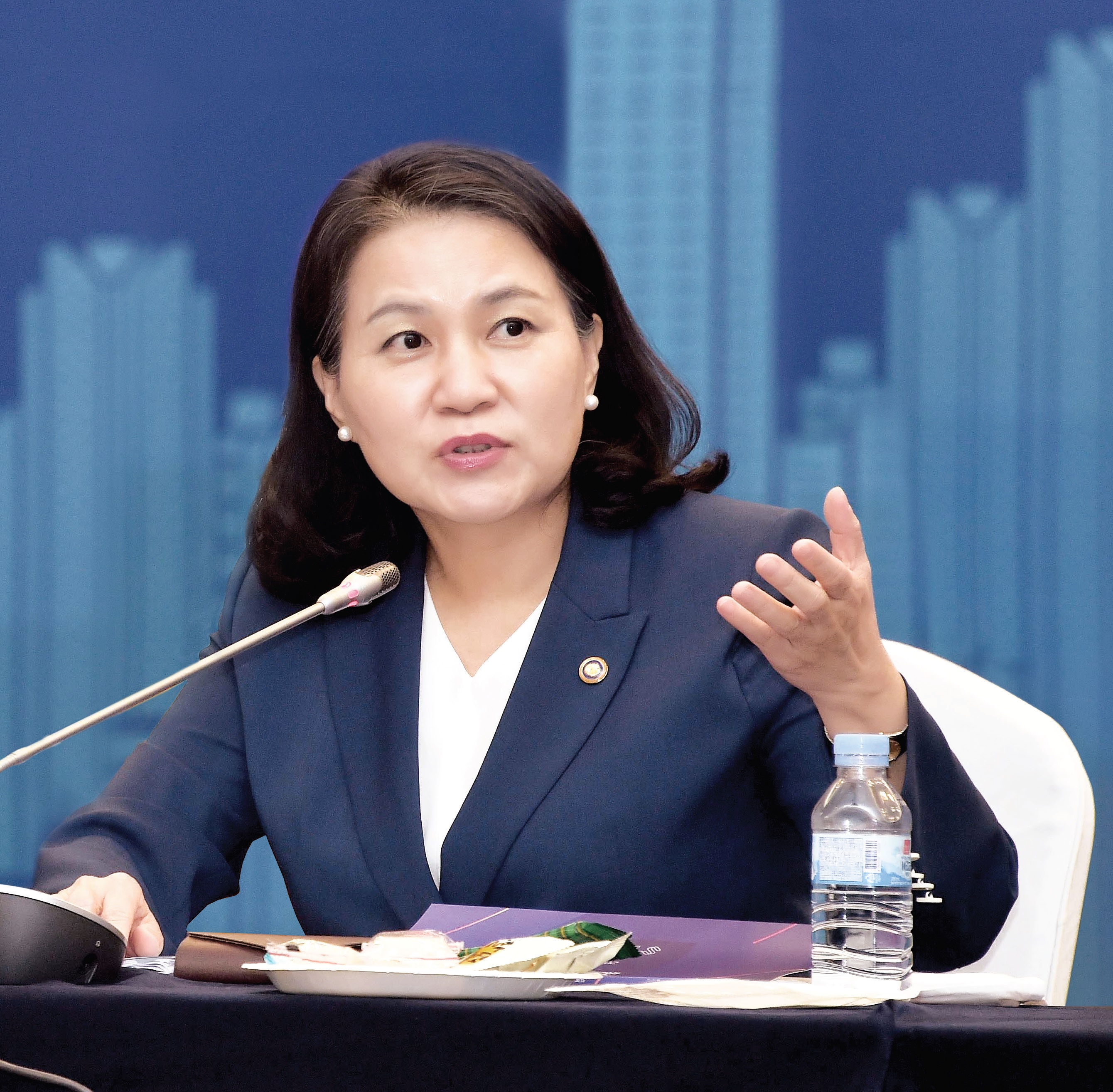 Minister for Trade, Korea, Republic of